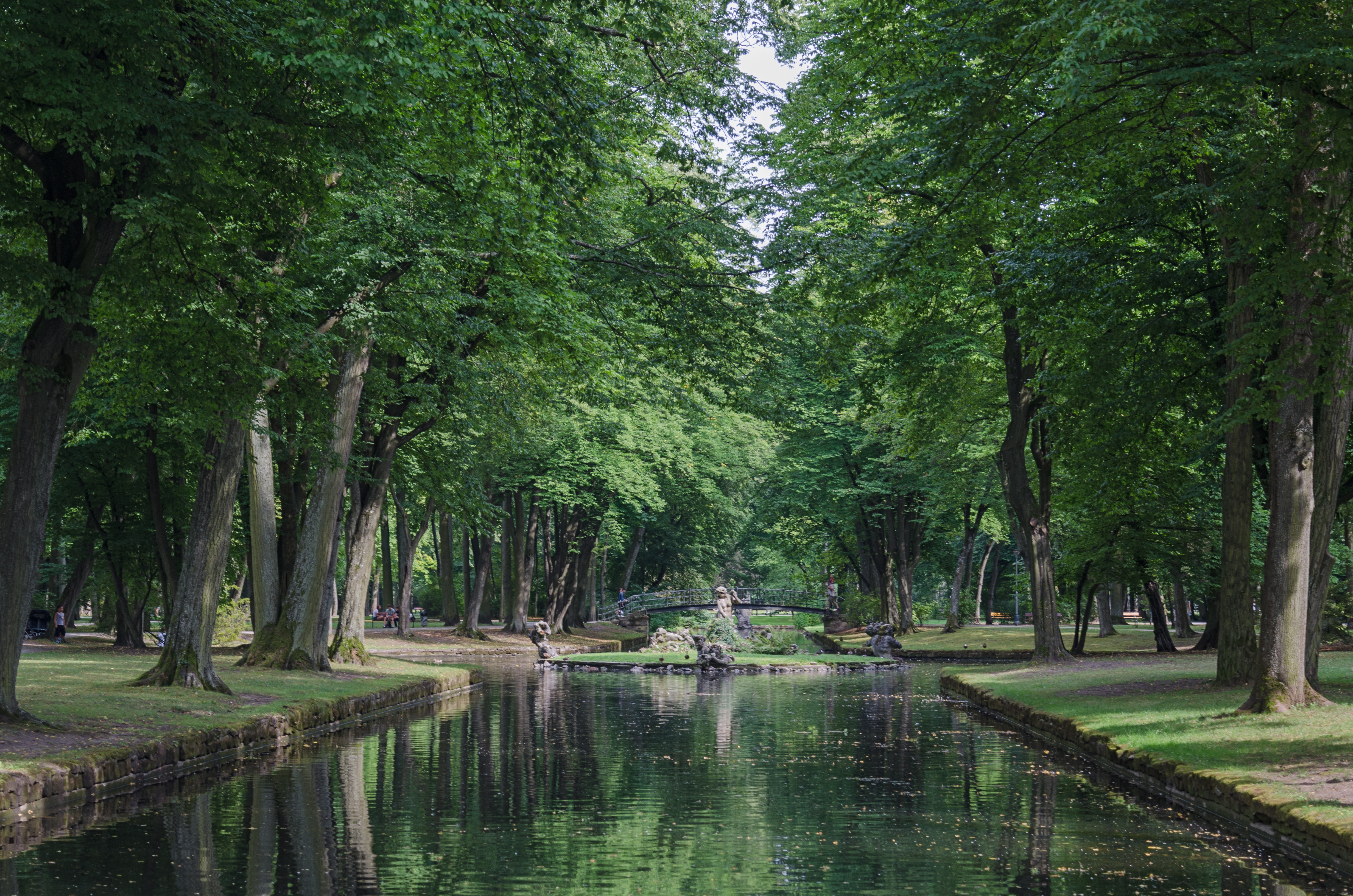 Bayreuth, Hofgarten